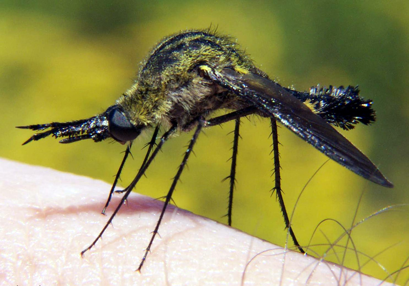 jpeg image, adult bee fly Lepidophora lepidocera. This fly is approximately 15mm long from antennae to tail. It is sitting on my finger.